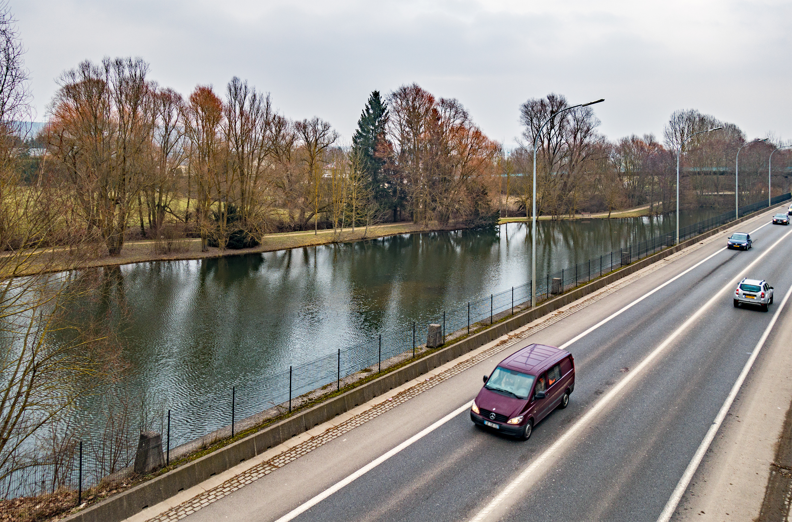 The pond of Linger beside the N31